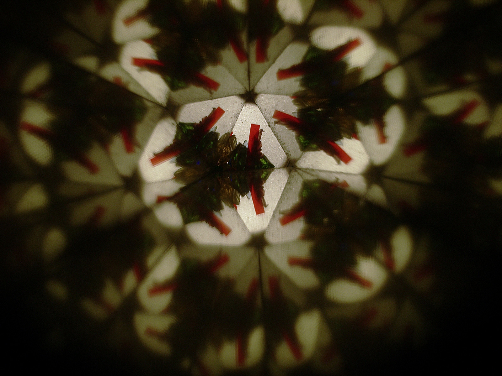 A kaleidoscopic pattern made using a simple toy kaleidoscope tube.